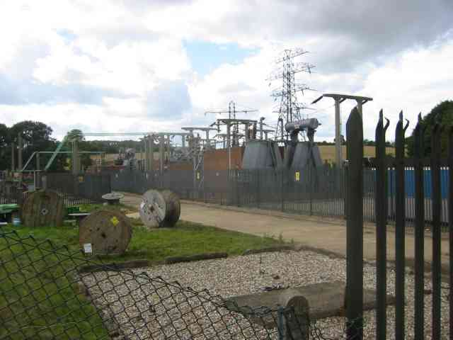 Switching and transformer station Piccotts End. Such a vital element in the process of living.